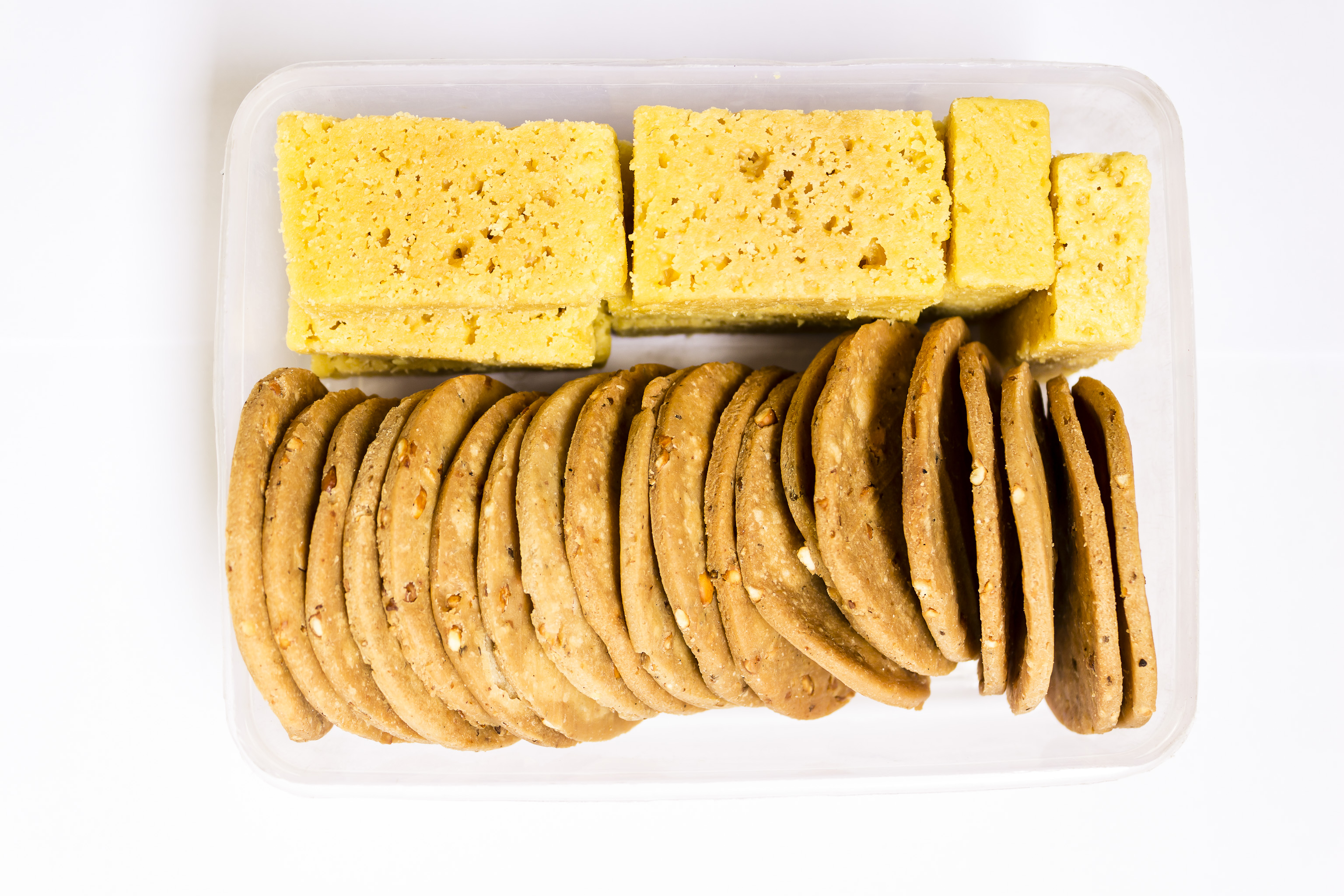 Box with savories called thattai or nippat in south India and sweets called Mysore Pak on a plain background